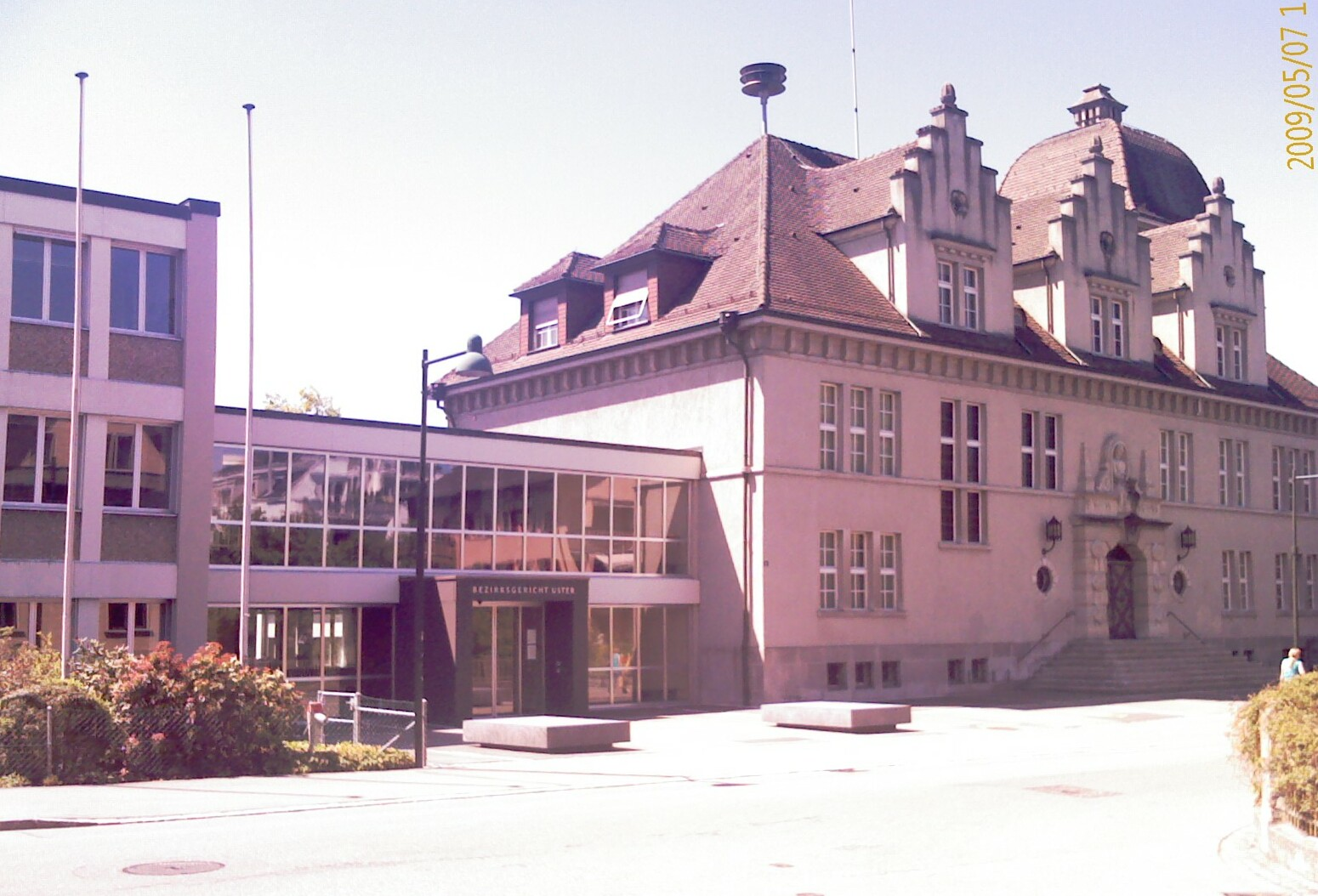 District building and tribunal of Uster, canton of Zürich, SwitzerlandEsperanto: Distrikta domo kaj tribunalo de Unster, Kantono Zuriko, Svislando